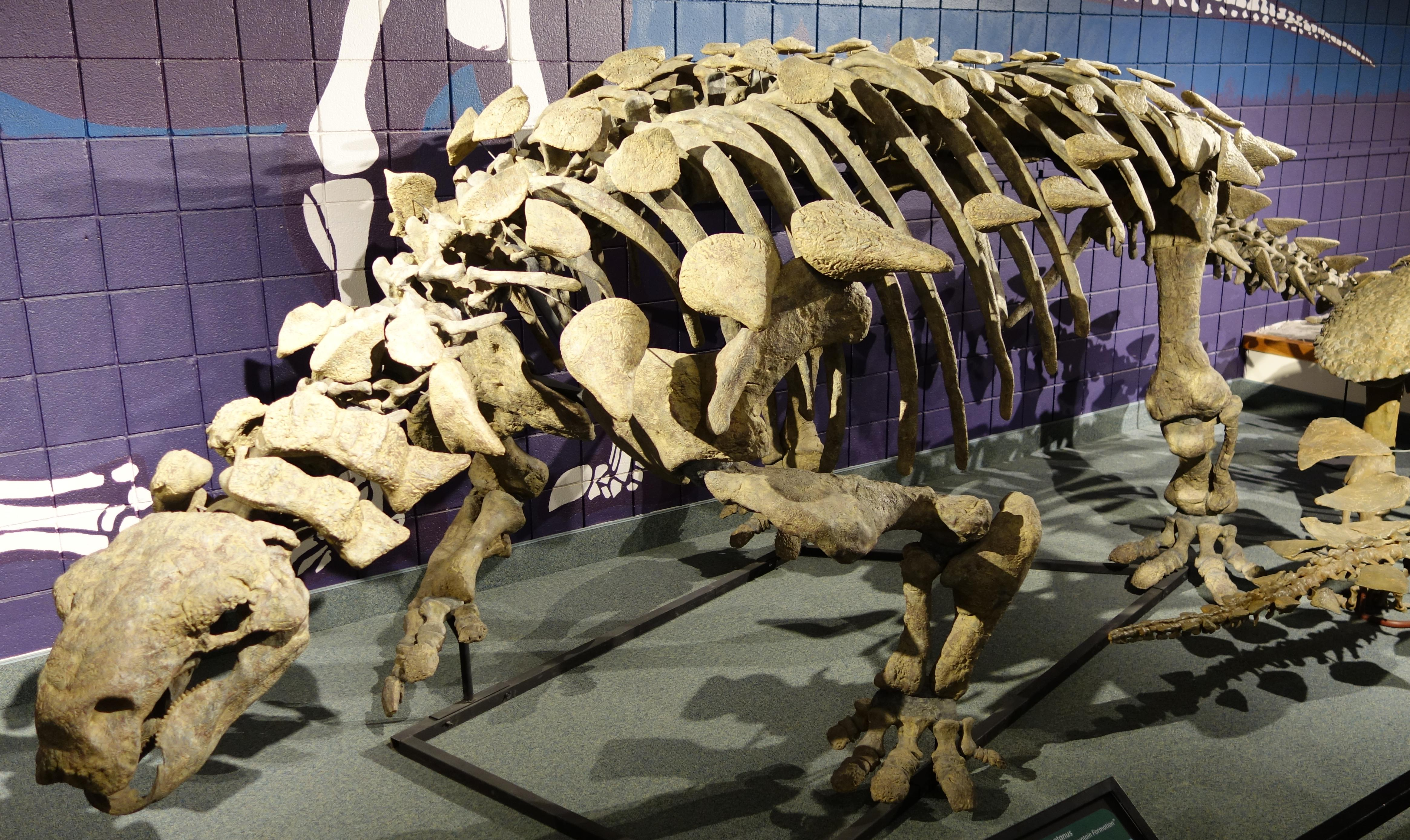 Peloroplites cedrimontanus, on display at the USU Eastern Prehistoric Museum, Price, Utah (US).